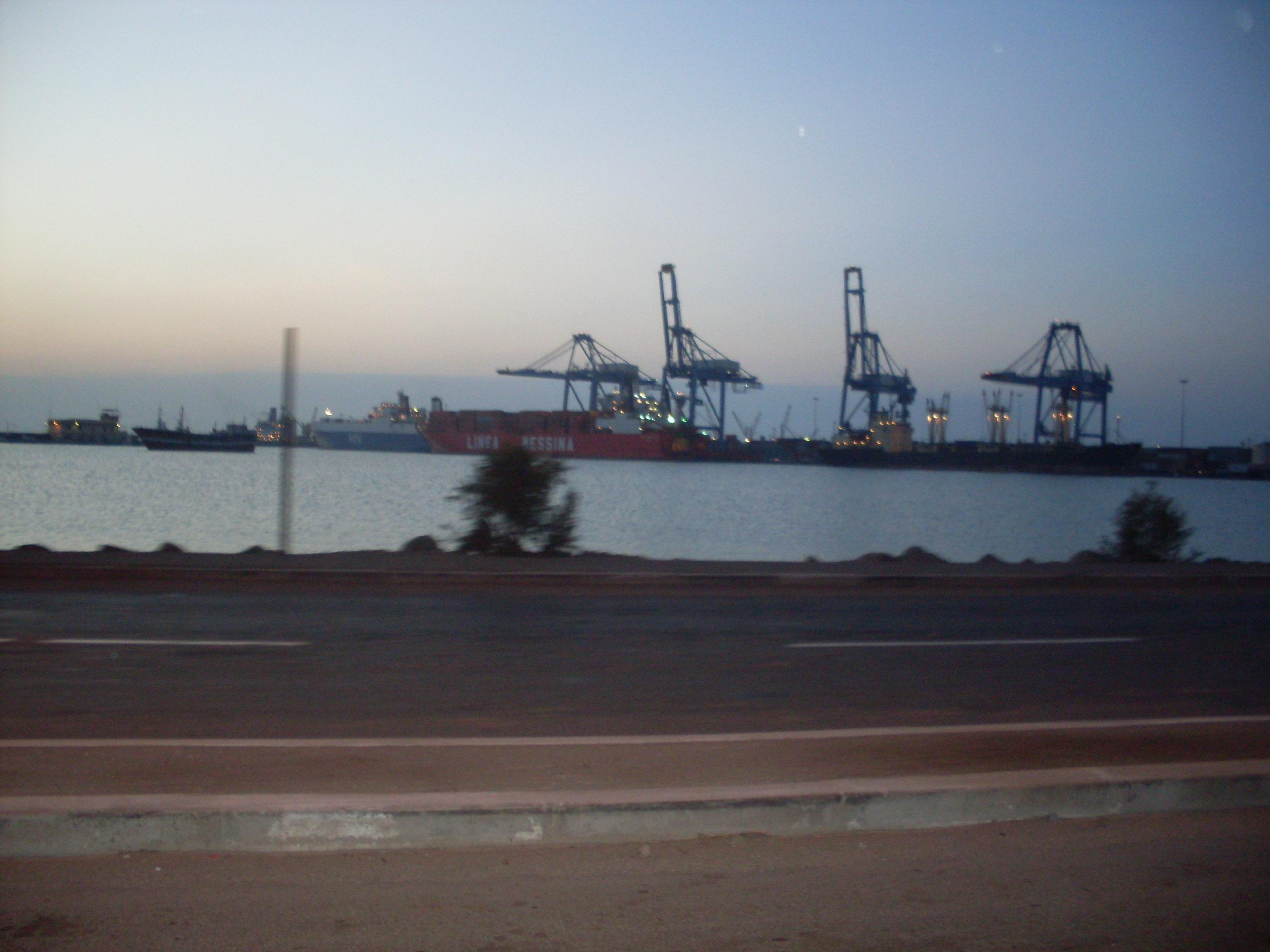 The International Port of Djibouti (Port Internationale de Djibouti) in Djibouti City.